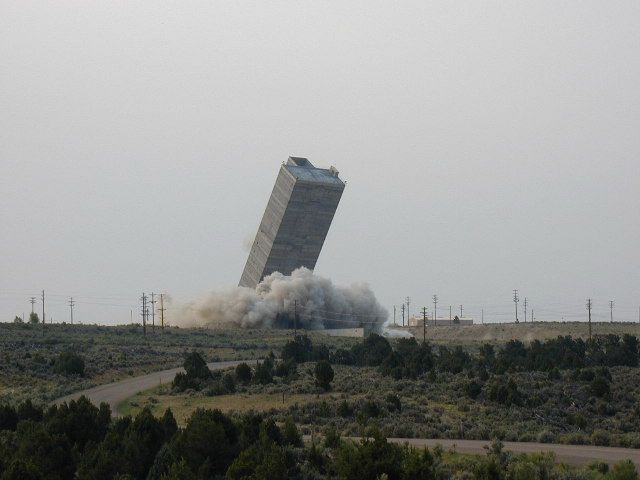 Demolition in 2002 of the shaft house of the former Occidental-Tenneco Cathedral Bluffs oil shale project near Rifle, Colorado (BLM)